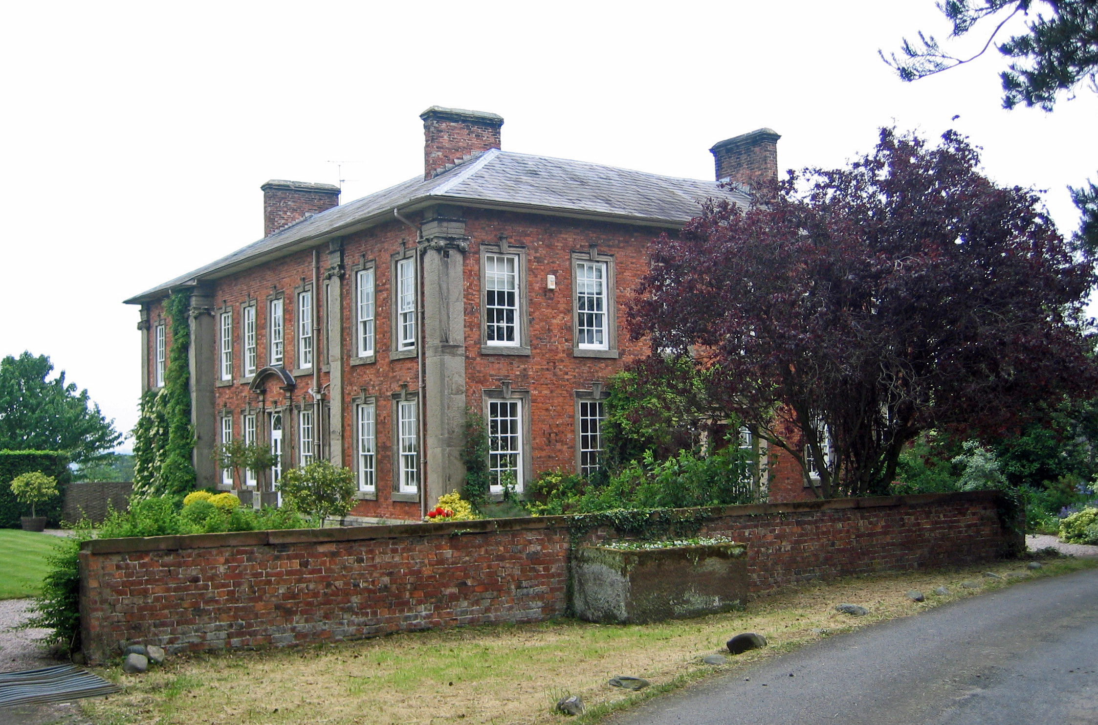 Hockenhull Hall, Hockenhull, Cheshire, seen from the southeast